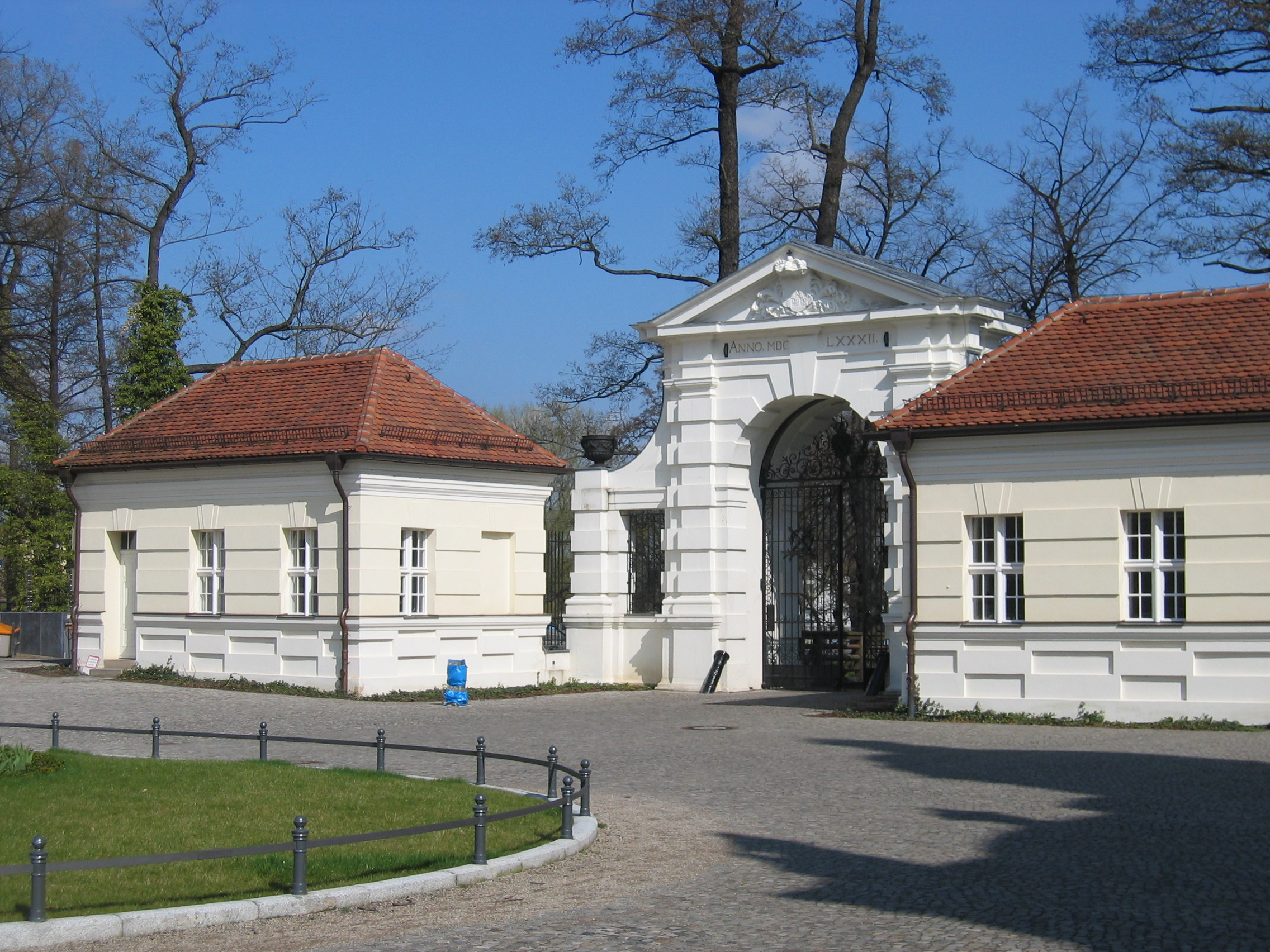 Schloss Köpenick - gate lodge and entrance gate